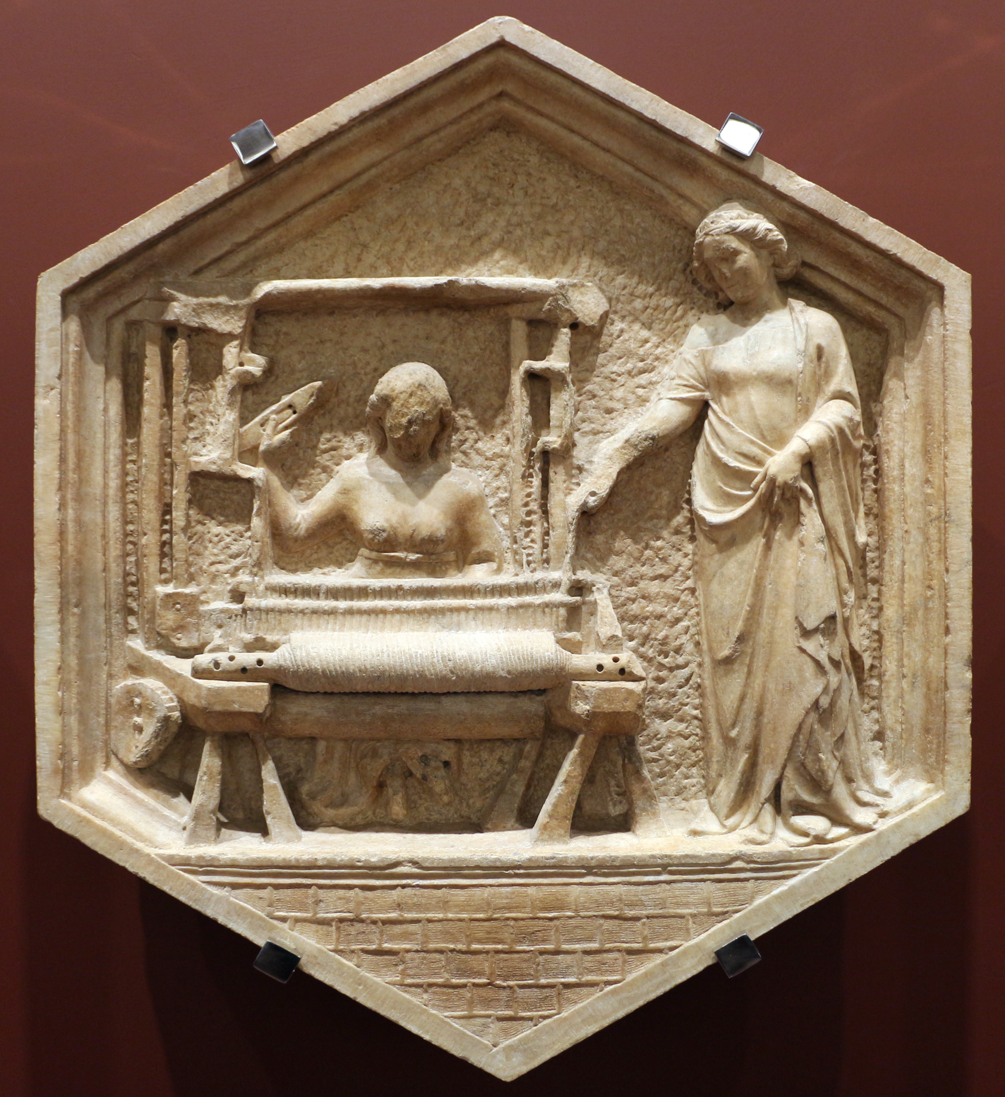 Reliefs of the Giotto's Belltower